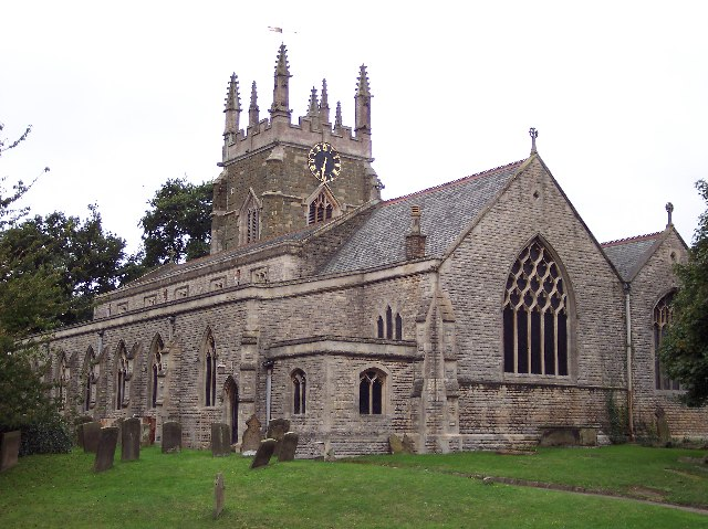 St. James; Spilsby, Lincs (+ Church / Boston Roads) The Parish Church stands on the corner of Church Street and Boston Road. It was built around the beginning of the 14th. Century in the traditional Spilsby sandstone of the area. However, it has been altered many times. Apart from the tower, it was covered with Ancaster stone in 1879. The church contains memorials of the Willoughby de Eresby family, of Sir John Franklin and his two brothers, Major James Franklin and Sir Willingham Franklin. The six bells date from 1744. More details can be found by visiting the Churchmouse